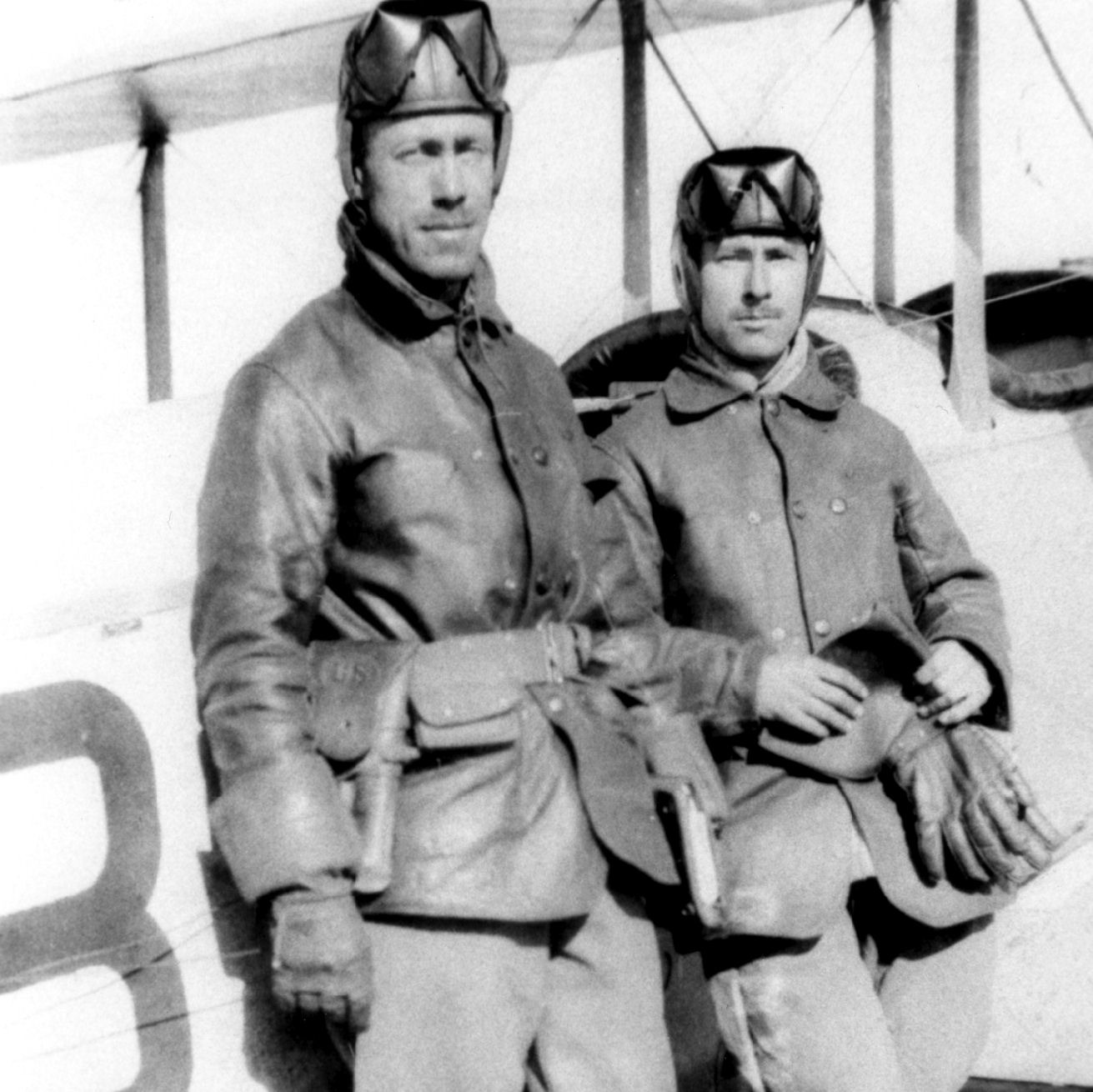 At field headquarters near Casas Grandes, Mexico, April 1916, airmen Lts. Herbert A. Dargue (left), and Edgar S. Gorrell (right) pose with Signal Corps No. 43.